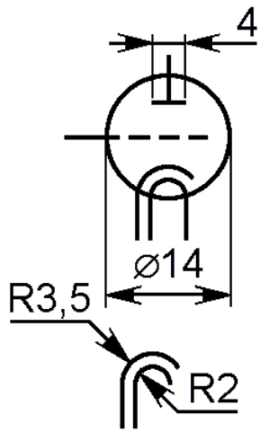 Vacuum triode symbol according to Russian GOST